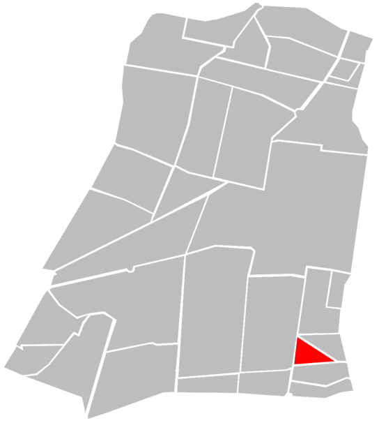 Map of Delegación Cuauhtémoc in Mexico City, with Colonia Vista Alegre highlighted in red